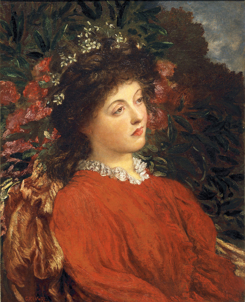 Although not a founding member of the Pre‑Raphaelite Brotherhood, George Frederick Watts spent most of his life working outside the prescribed system. Watts settled at Little Holland House in London, the home of his life‑long benefactors, Sarah and Toby Prinsep. The Prinsep’s home was a gathering point for artists and patrons, including many of the Pre‑Raphaelites. In this portrait of Eveleen Tennant, painted on the Isle of Wight, another Prinsep enclave, Watts captures her beauty in a pensive, thoughtful pose. Her precisely delineated porcelain skin contrasts with the loosely painted hair and foliage. (see references)